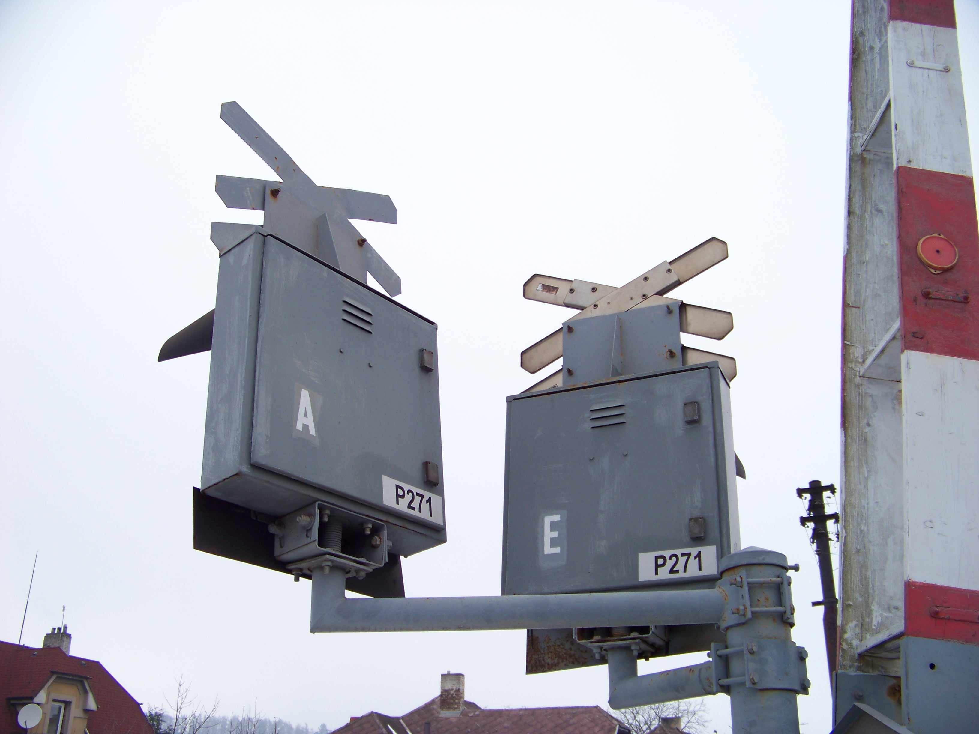 Řevnice, Prague-West District, Central Bohemian Region, the Czech Republic. Pražská street, numbers of the level crossing.